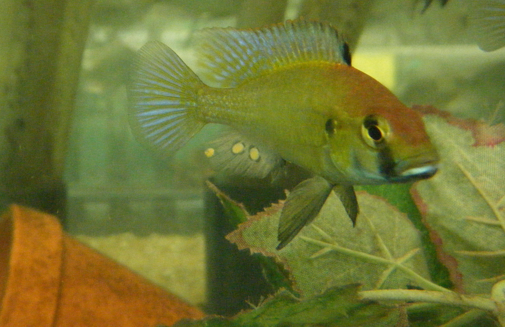 Astatotilapia calliptera "Chilingali" from Lake Chilingali, young G1 (captive bred in a laboratory) male